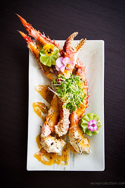 Grilled robata style in the shell to highlight its sweetness with fresh lime